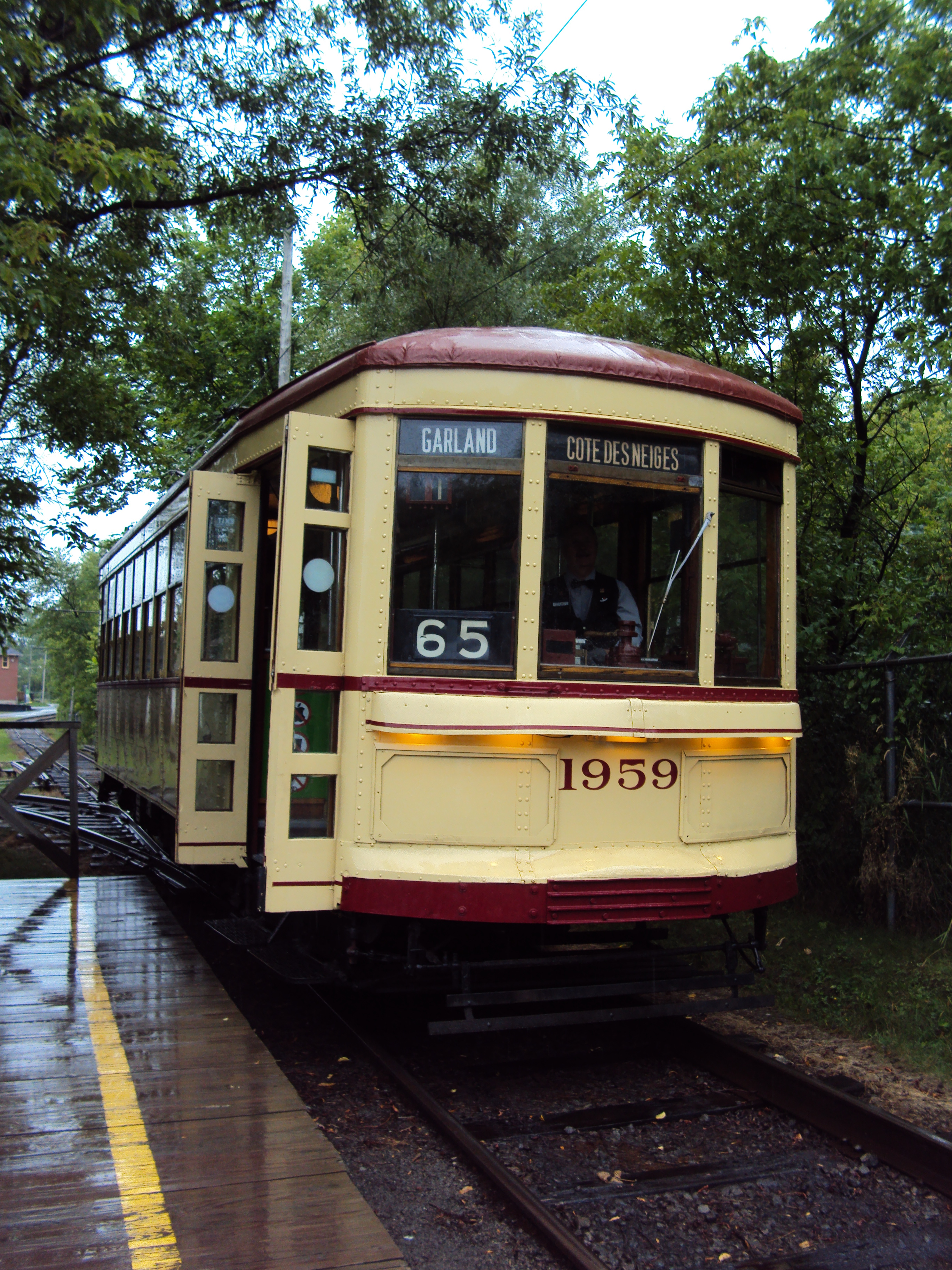 Outside circular street car waiting a the main station near the entrance.